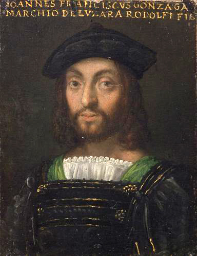 Portrait of Gianfrancesco Gonzaga (1488-1524)